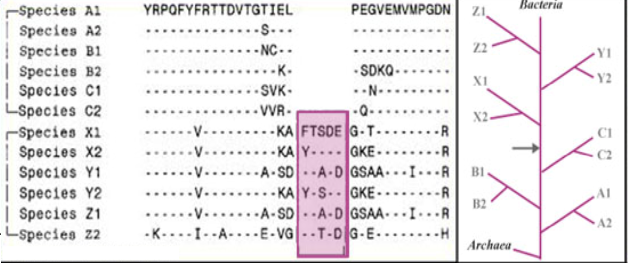 Multi group or Main-Line Conserved signature INDEL (CSIs). The dashes in all alignments presented here indicate the presence of an amino acid identical to that on the top line.